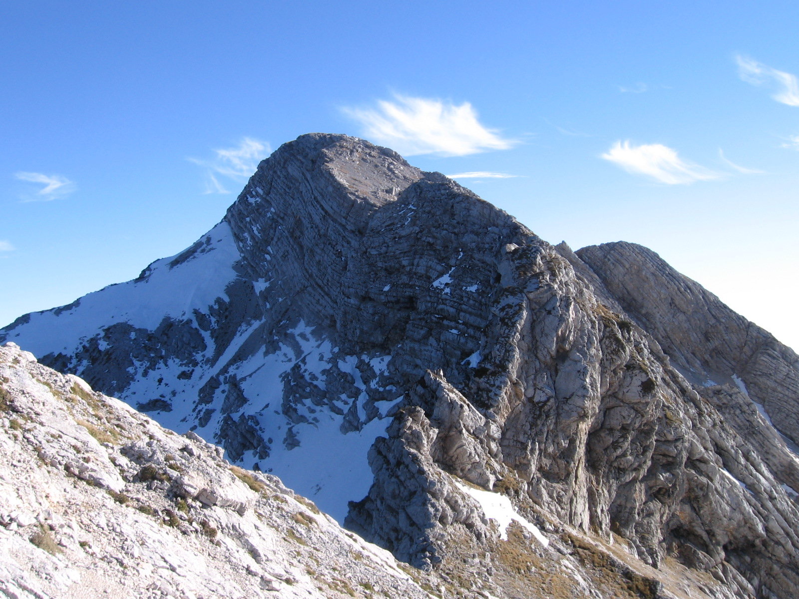 Mt. Vrh nad Škrbino (Peak above Notch, 2,054 m) - west side, Triglav national park, Slovenia.